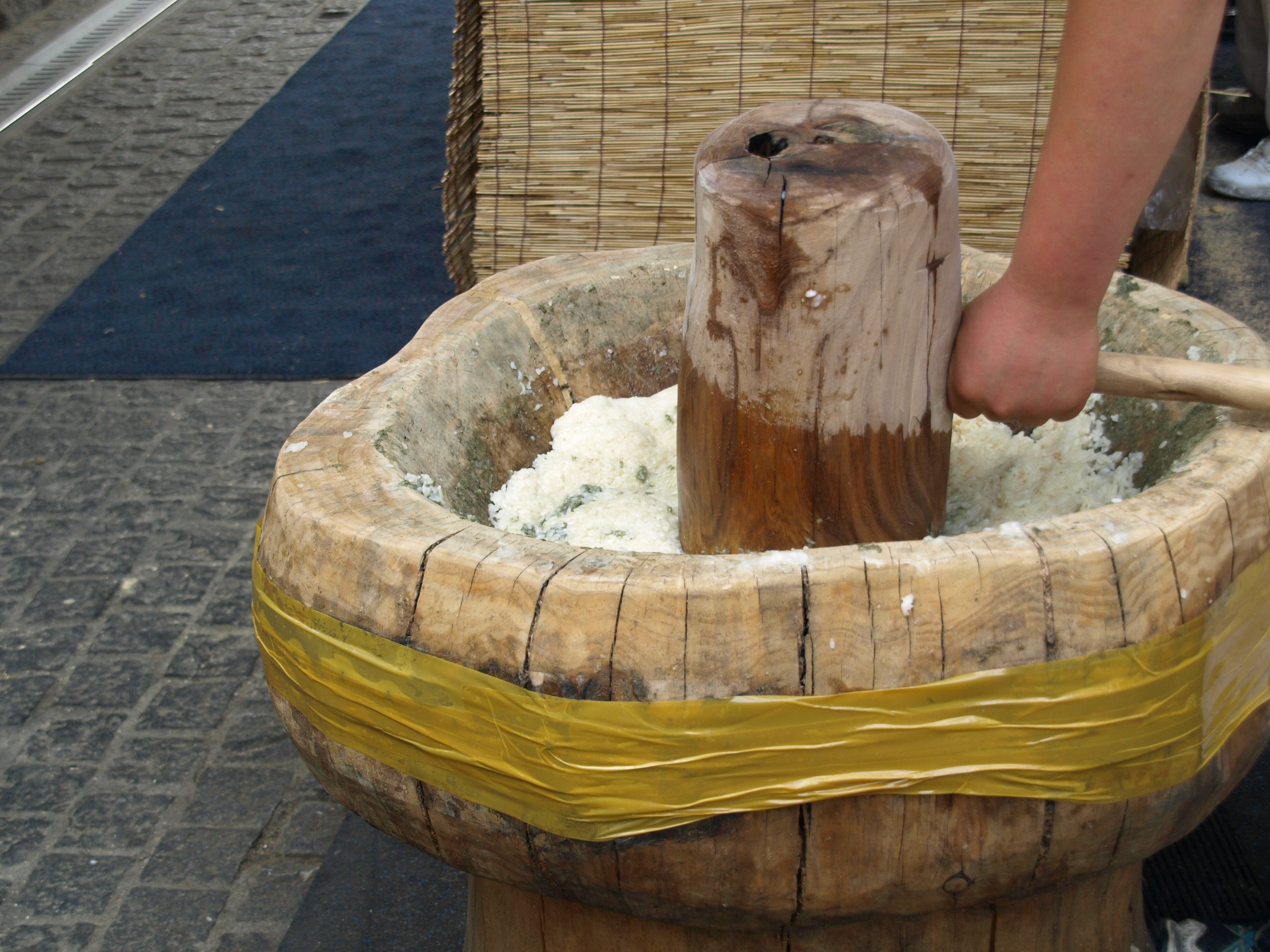 A young man in hanbok pounding tteok (떡 Korean rice cake) placed in jeolgu (절구 mortar) with tteokme (떡메 mallet) at Insadong in Jongno-gu district, Seoul, South Korea.